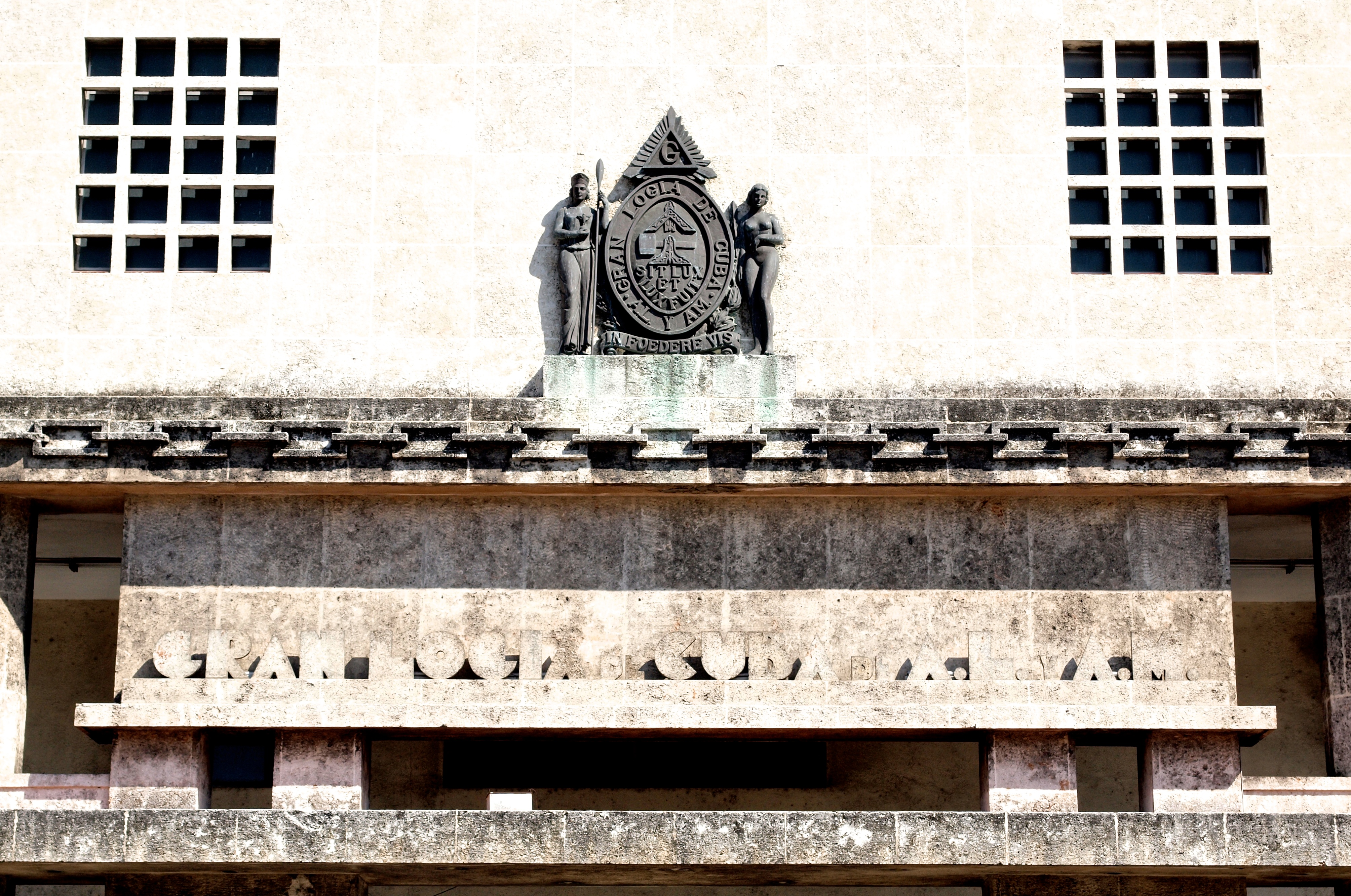 Art Deco architecture in Havana